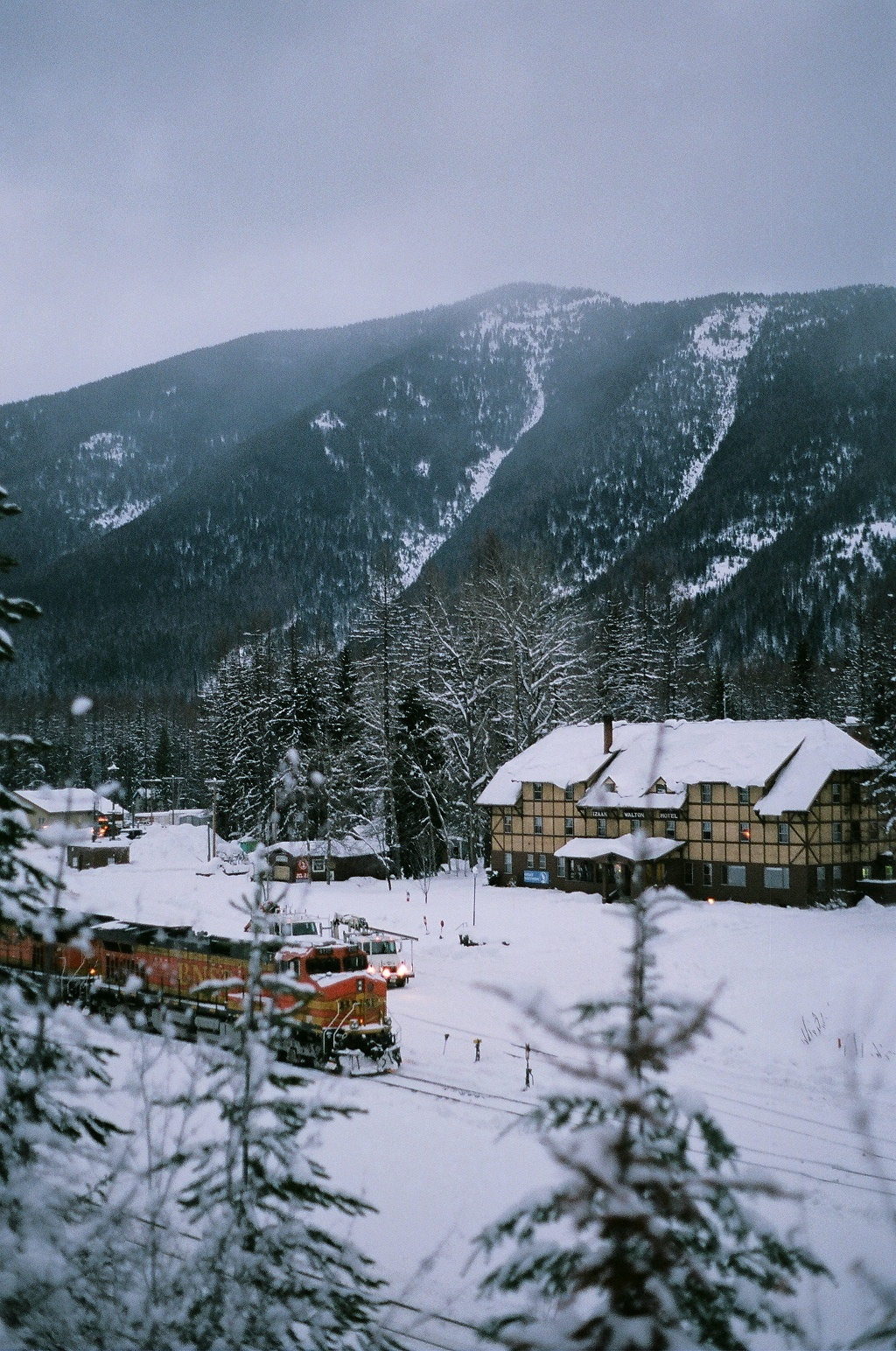 Izaak Walton Inn in December 2008